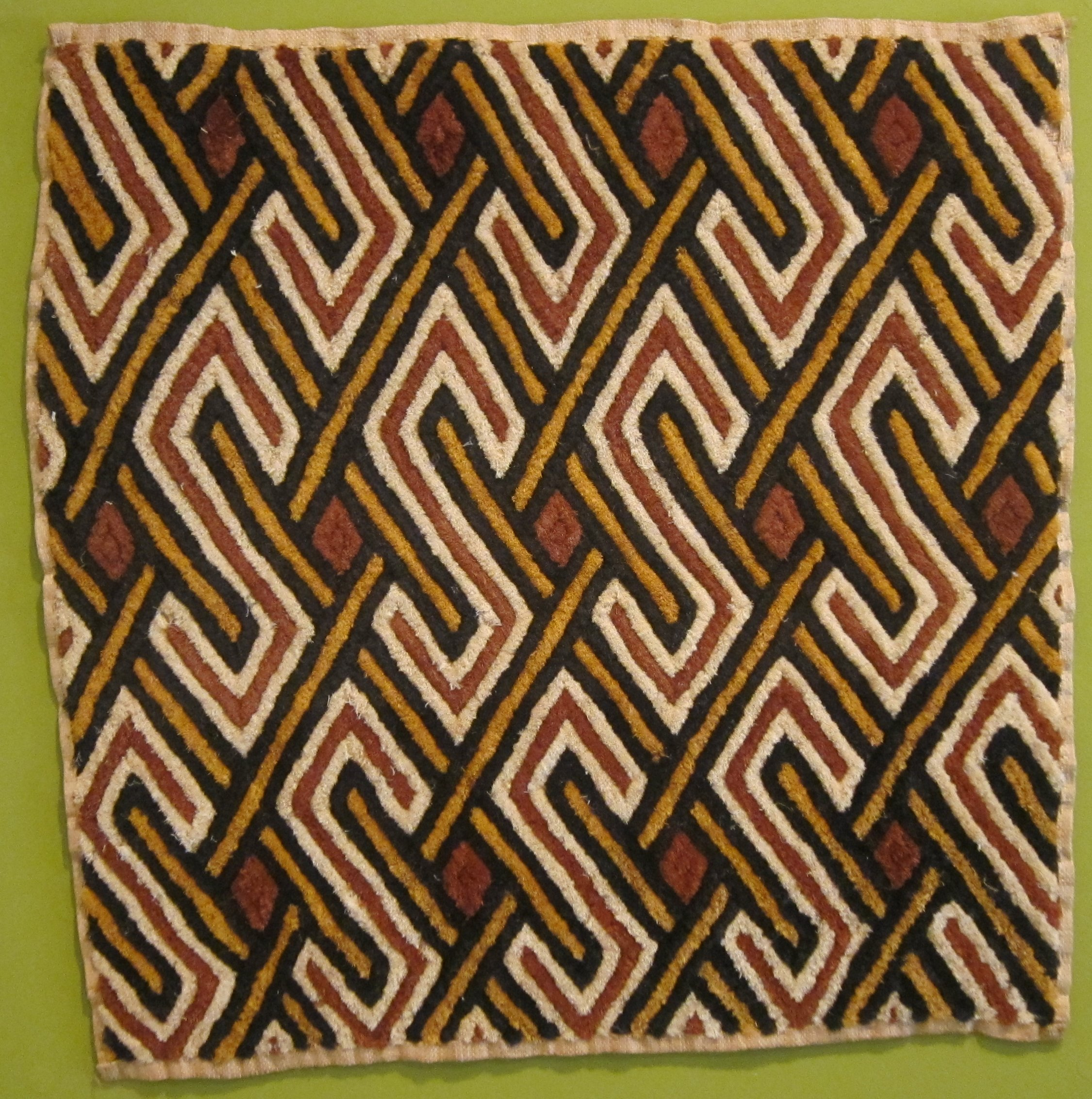 Panel, Democratic Republic of the Congo, Shoowa people, 20th century, raffia palm fiber, plain weave, and embroidery, Honolulu Museum of Art